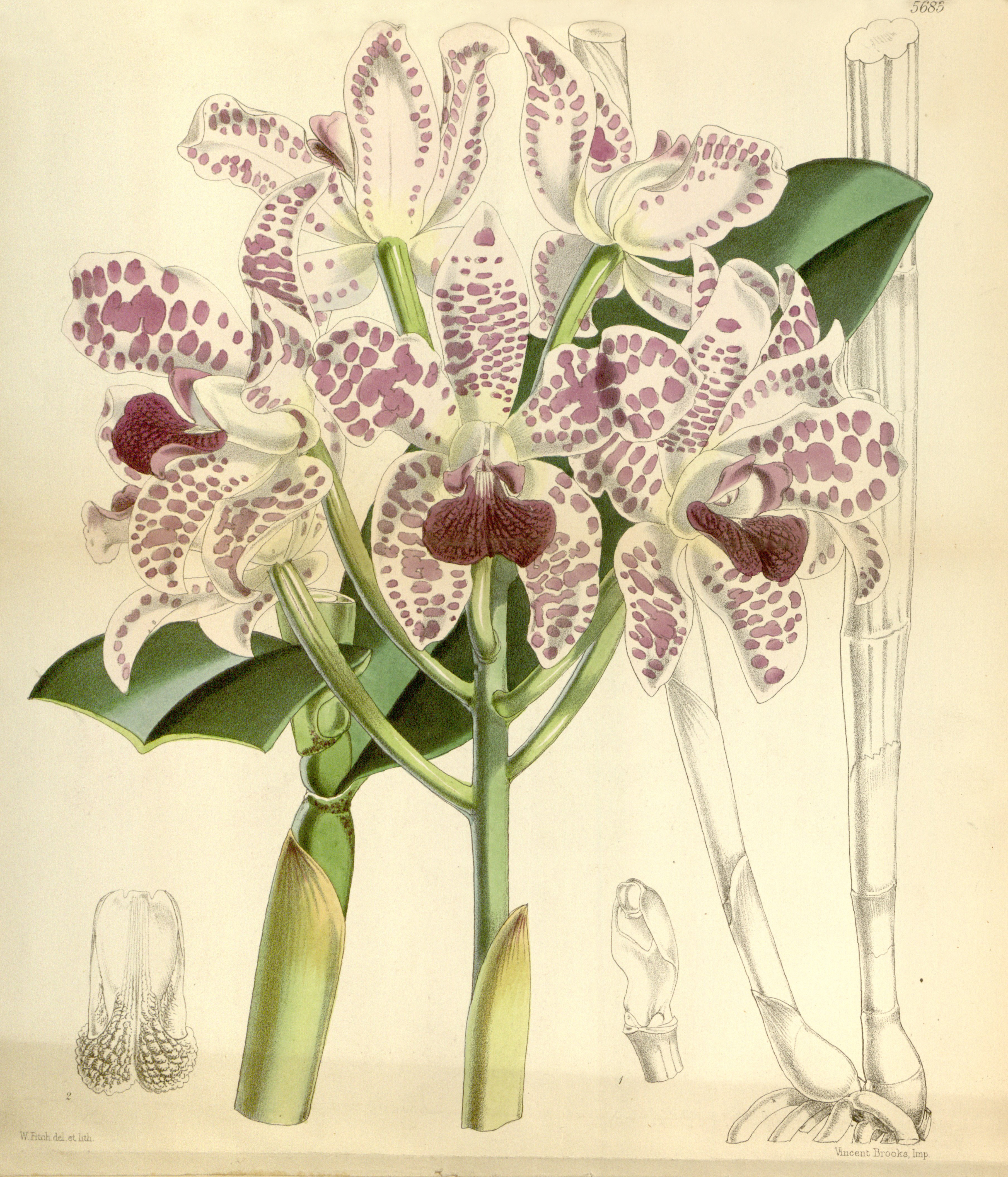 Illustration of Cattleya amethystoglossa